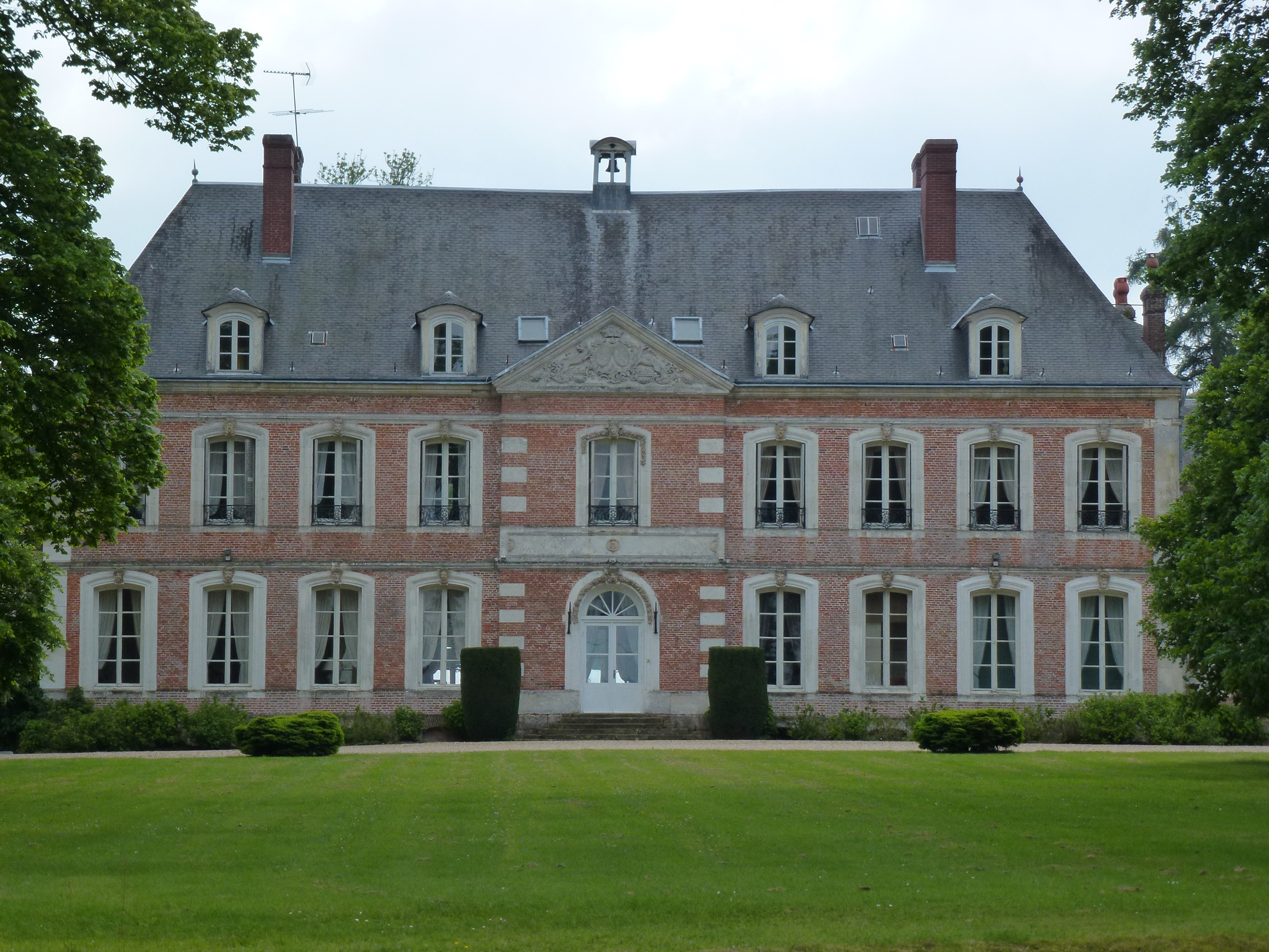 Saint-Léger-de-Rôtes (Eure, Fr) château